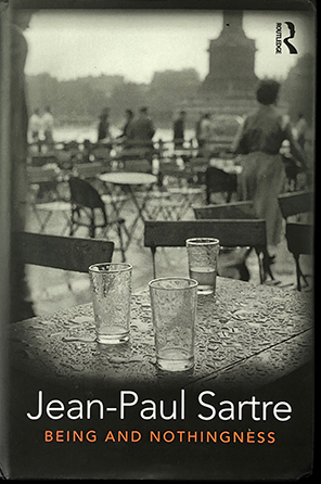 "Interrupted Conversation, Place de la Bastille, Circa 1950 - Cover photograph by Ervin Marton on Routledge’s 2018 edition of Jean-Paul Sartre’s L’Être et le Néant (considered one of the greatest philosophical works of the twentieth century).